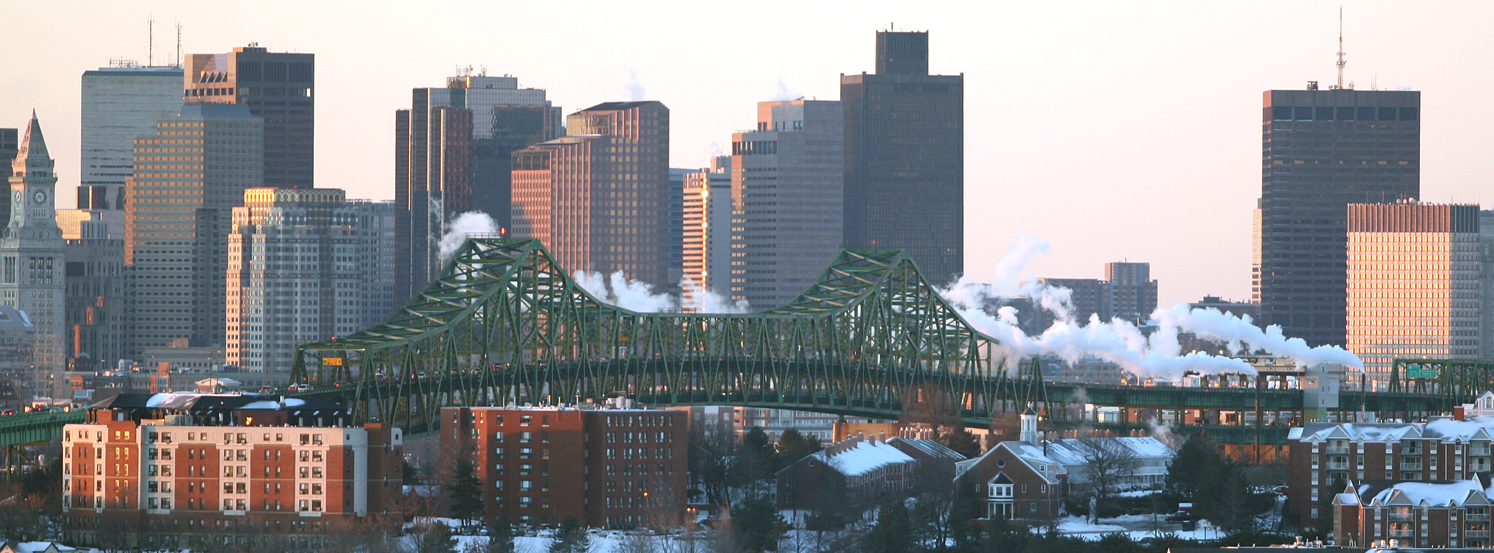 Image of the Tobin Bridge in Boston, Massachusetts. Taken from the Whidden Hospital in Everett, Massachusetts on February 15, 2007 by me. Release into public domain